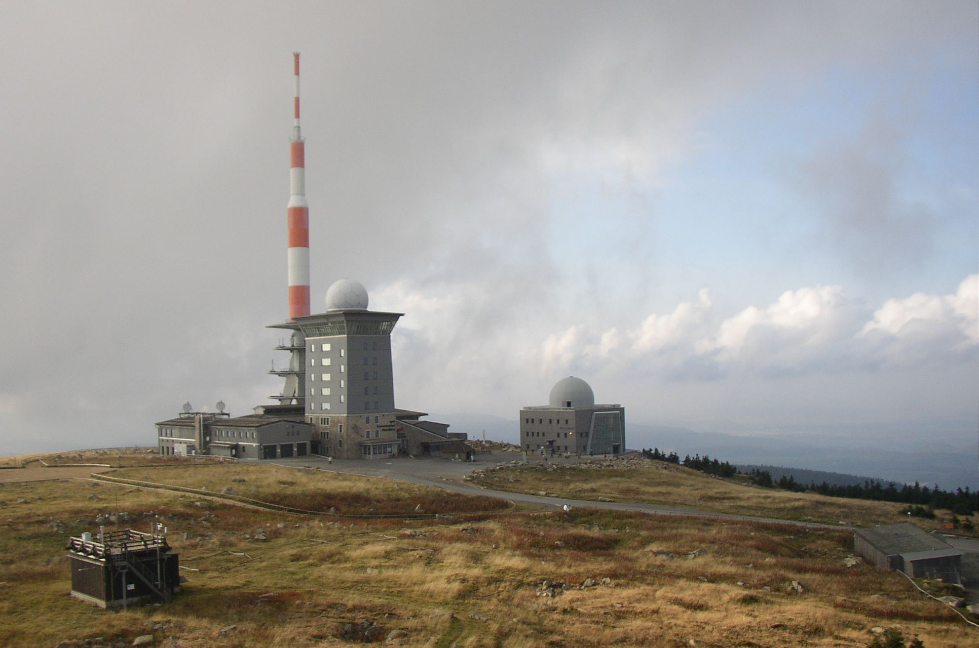 View from the observation deck of the weather station Brocken to the transmitter station, the Brockenhaus and the Brockenherberge